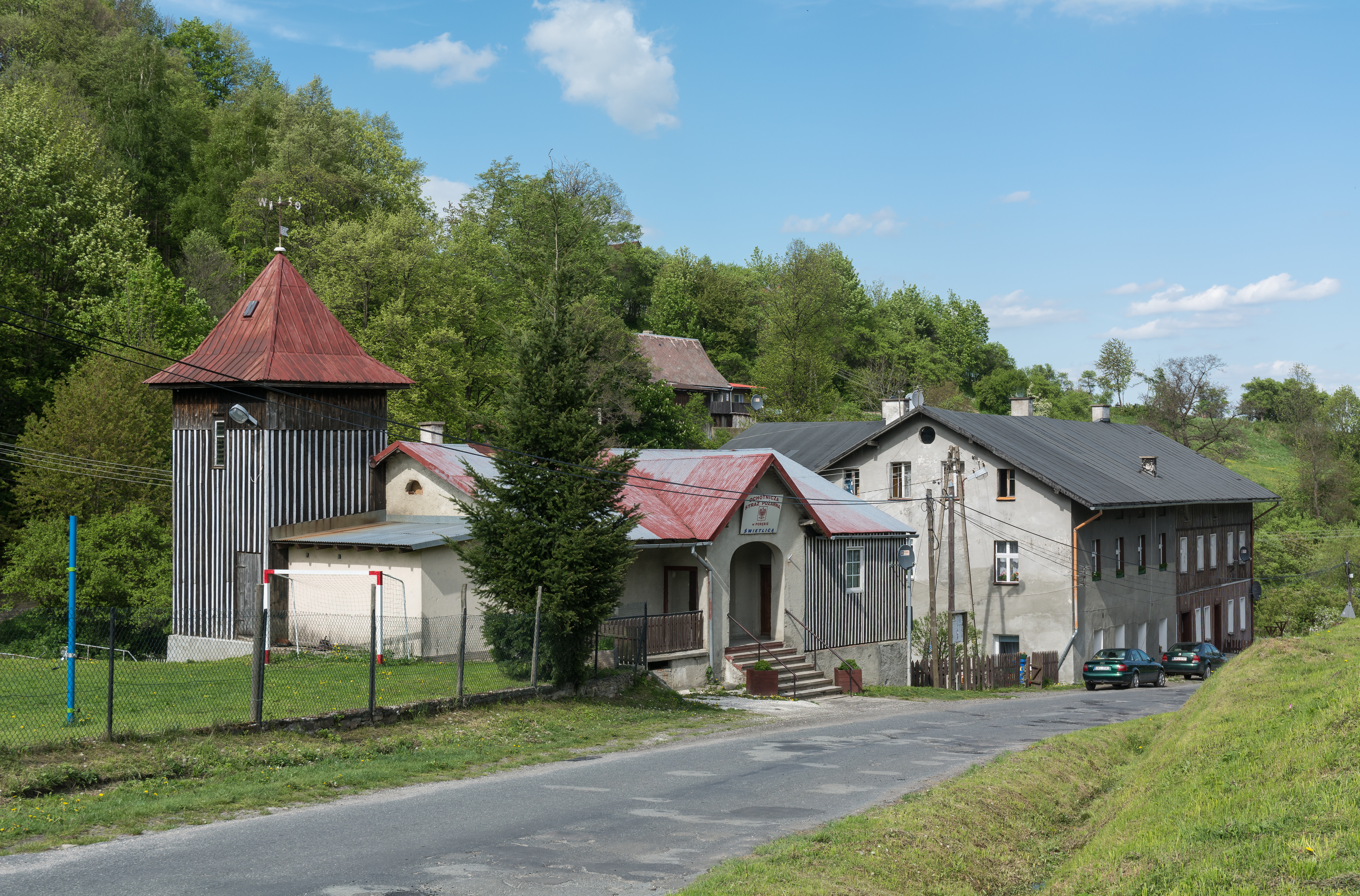 Fire station in Poręba